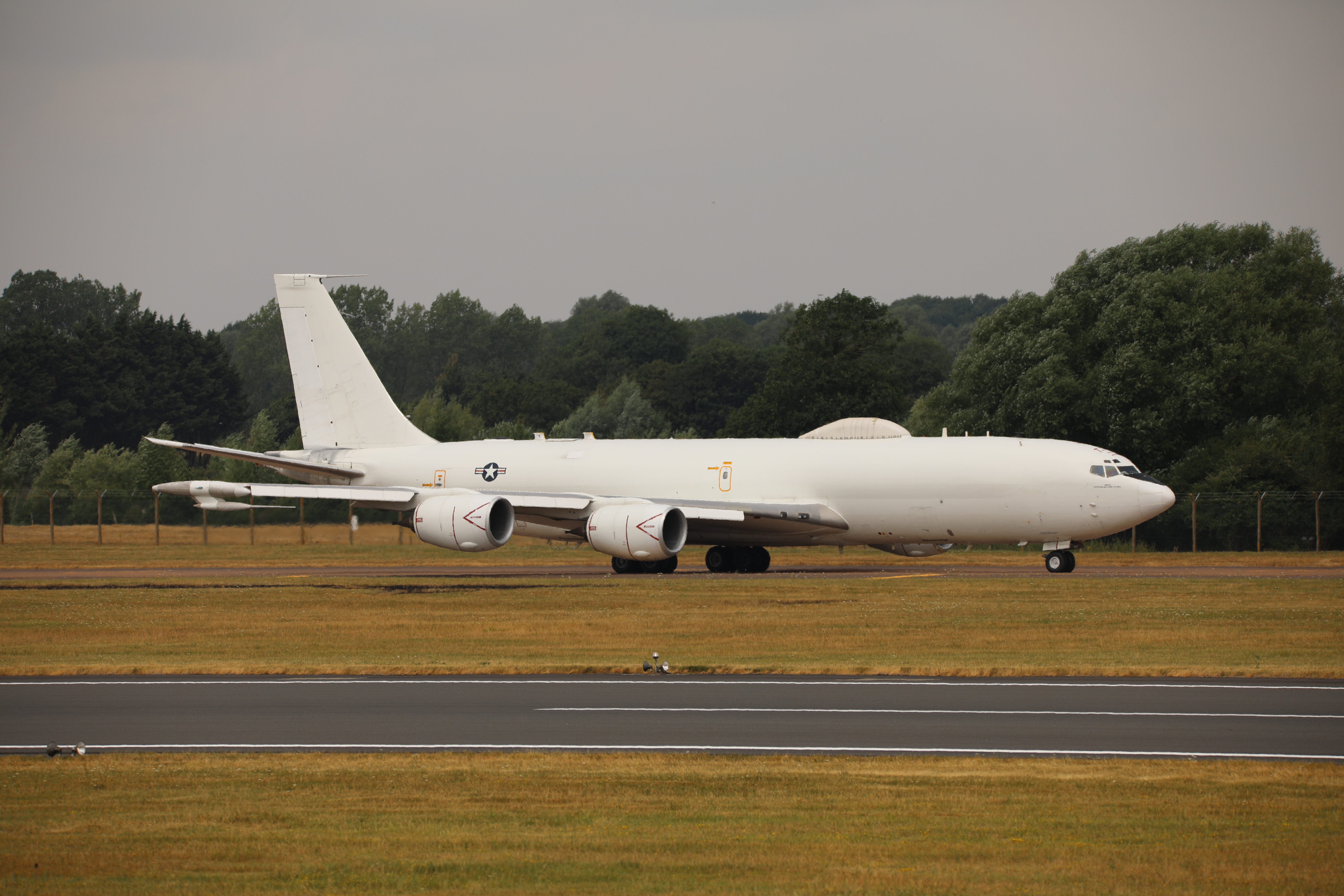 Boeing E-6B Mercury 5D4_1163